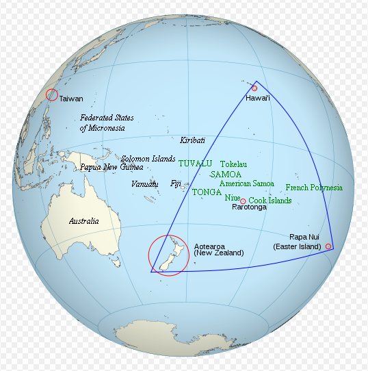 In green: Approximate location of the member countries of the Polynesian Leaders Group. Sovereign states are indicated in capital letters; non-sovereign members in small letters. In black: other Pacific countries. In blue, the Polynesian Triangle.